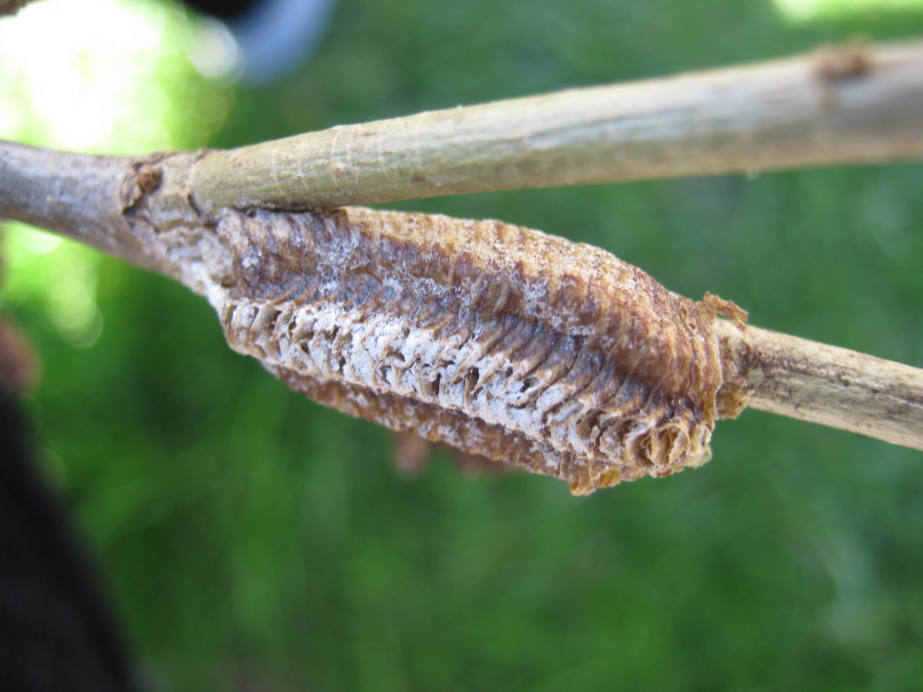 Carolina mantis, Stagmomantis carolina, ootheca. Willow Grove, Montgomery County, Pennsylvania, USA.